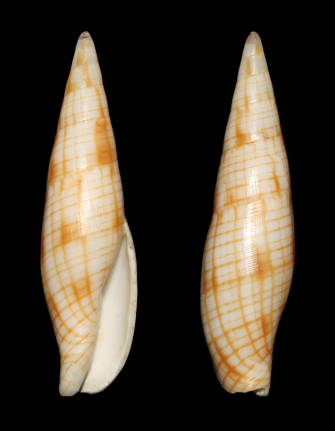 Mitra dondani Cernohorsky, 1985. Locality: Philippines, N.E. Cebu, Olango Island, in tangle nets at 120-150 m. depth. length 37 mm.